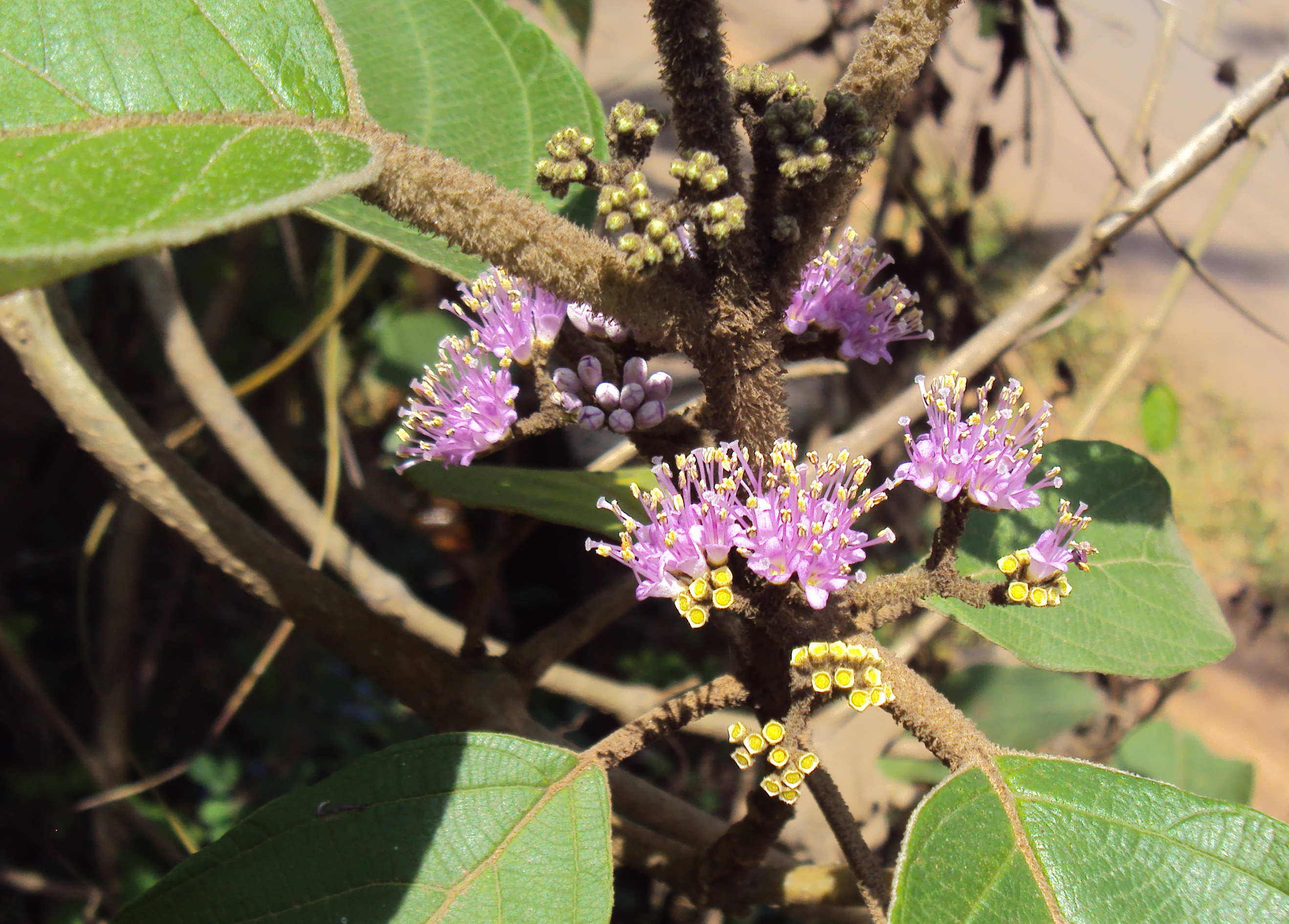 Callicarpa tomentosa